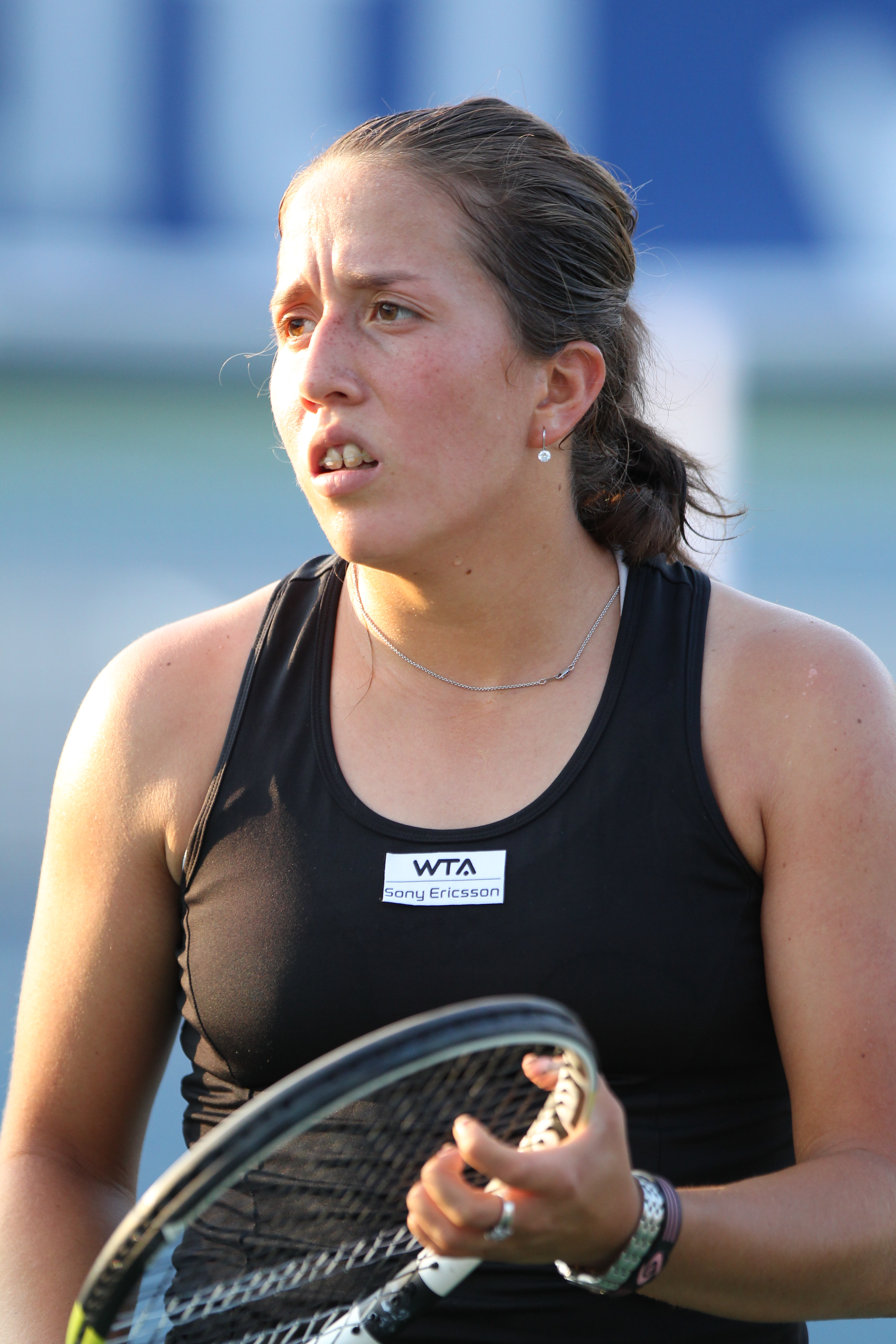 Citi Open Tennis July 30, 2011